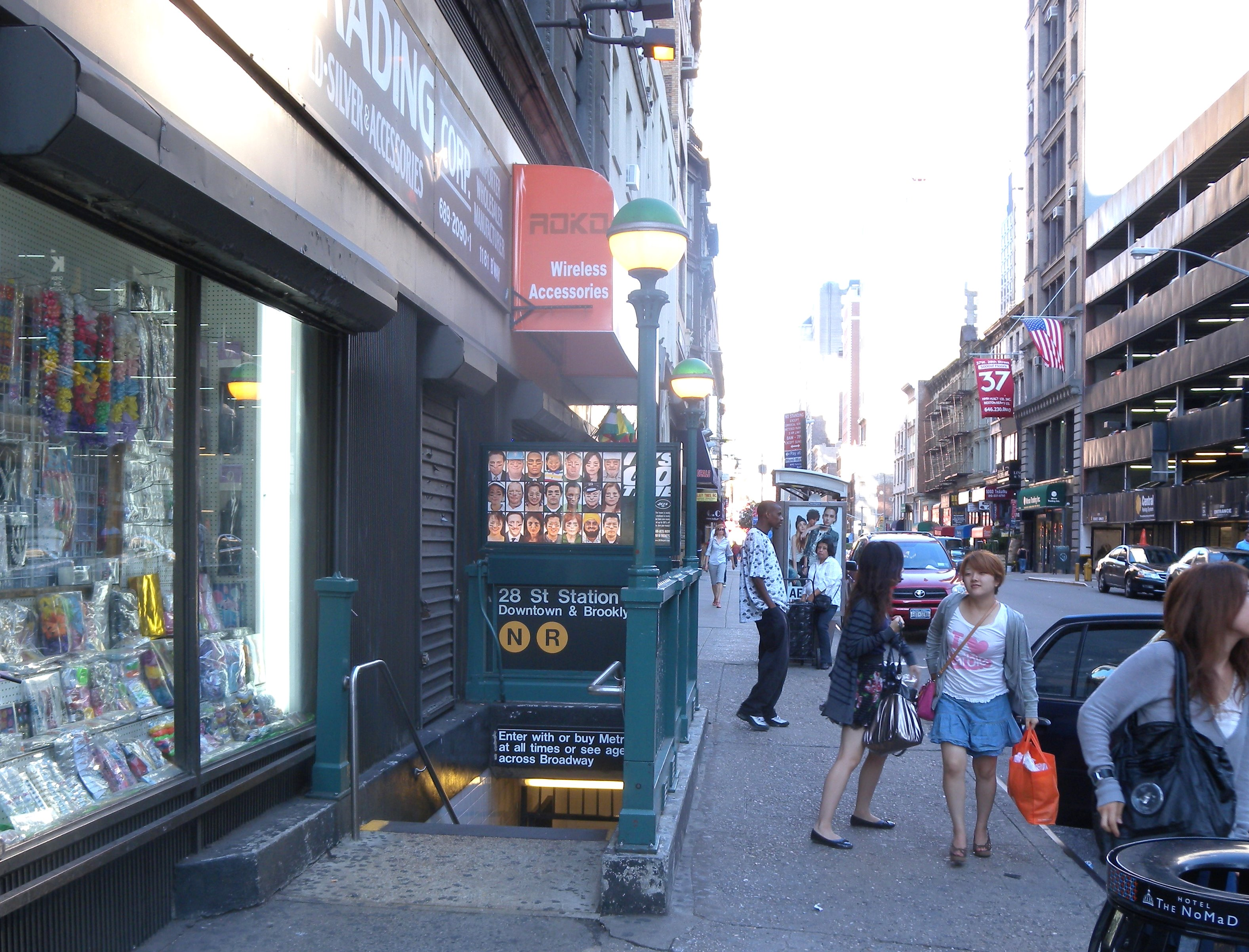 Downtown stair of BMT on 28th St.